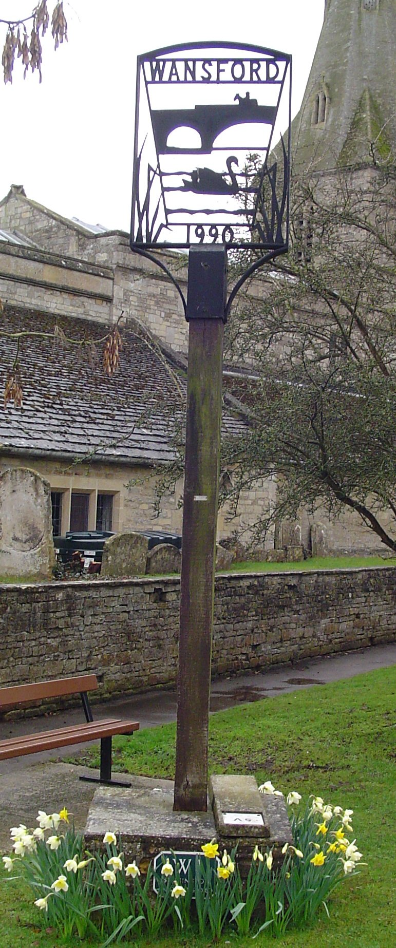 Signpost in Wansford, Cambridgeshire